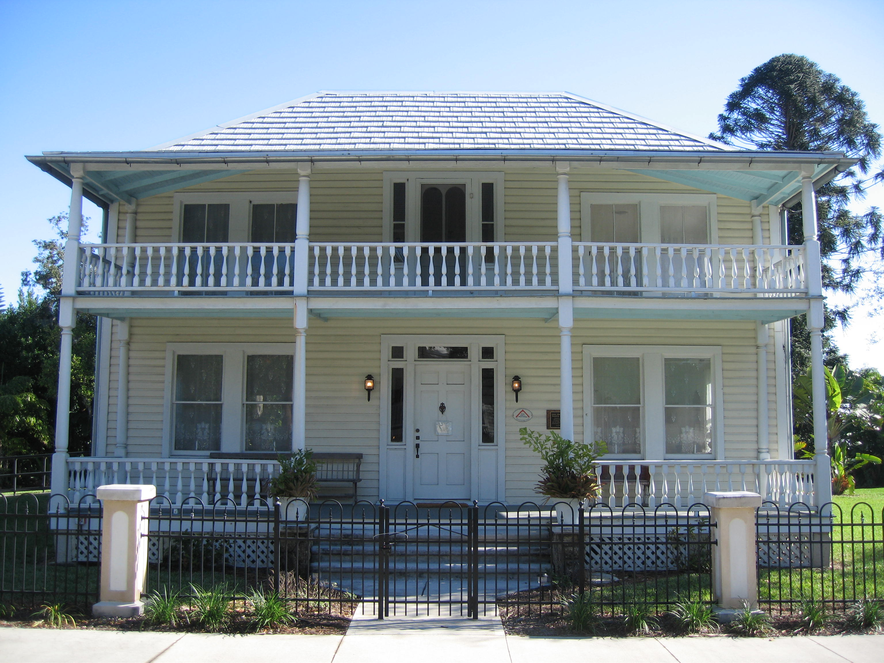 Front (west side) of James Wadsworth Rossetter House, 1320 Highland Avenue, Eau Gallie, Florida.